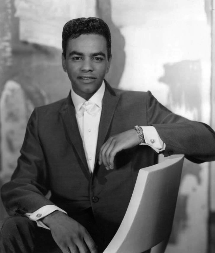 Publicity photo of singer Johnny Mathis.